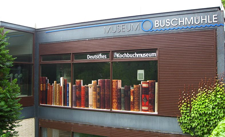 This is the former location of the German Cookbook Museum in Dortmund/Germany.